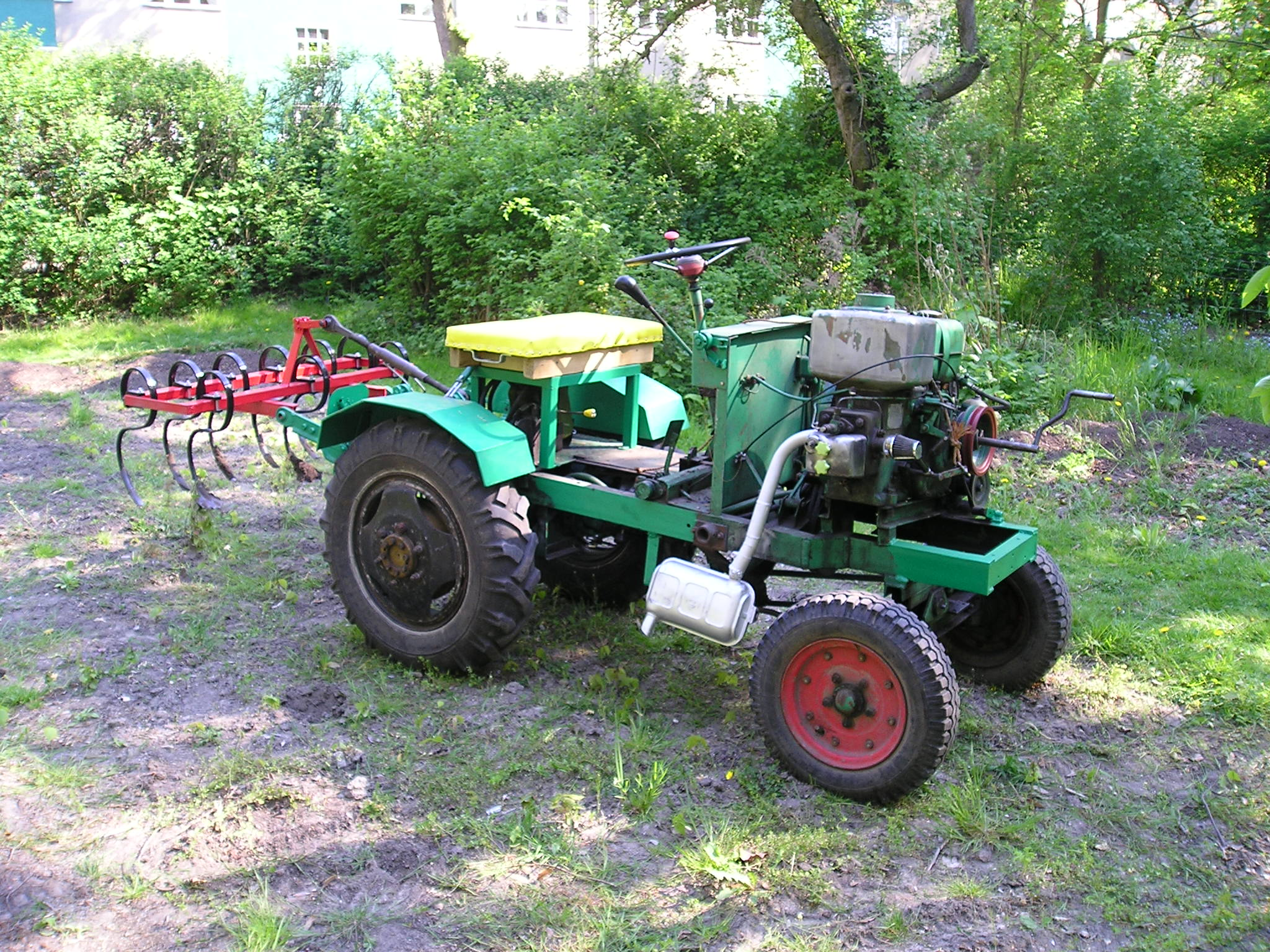 A self-made tractor